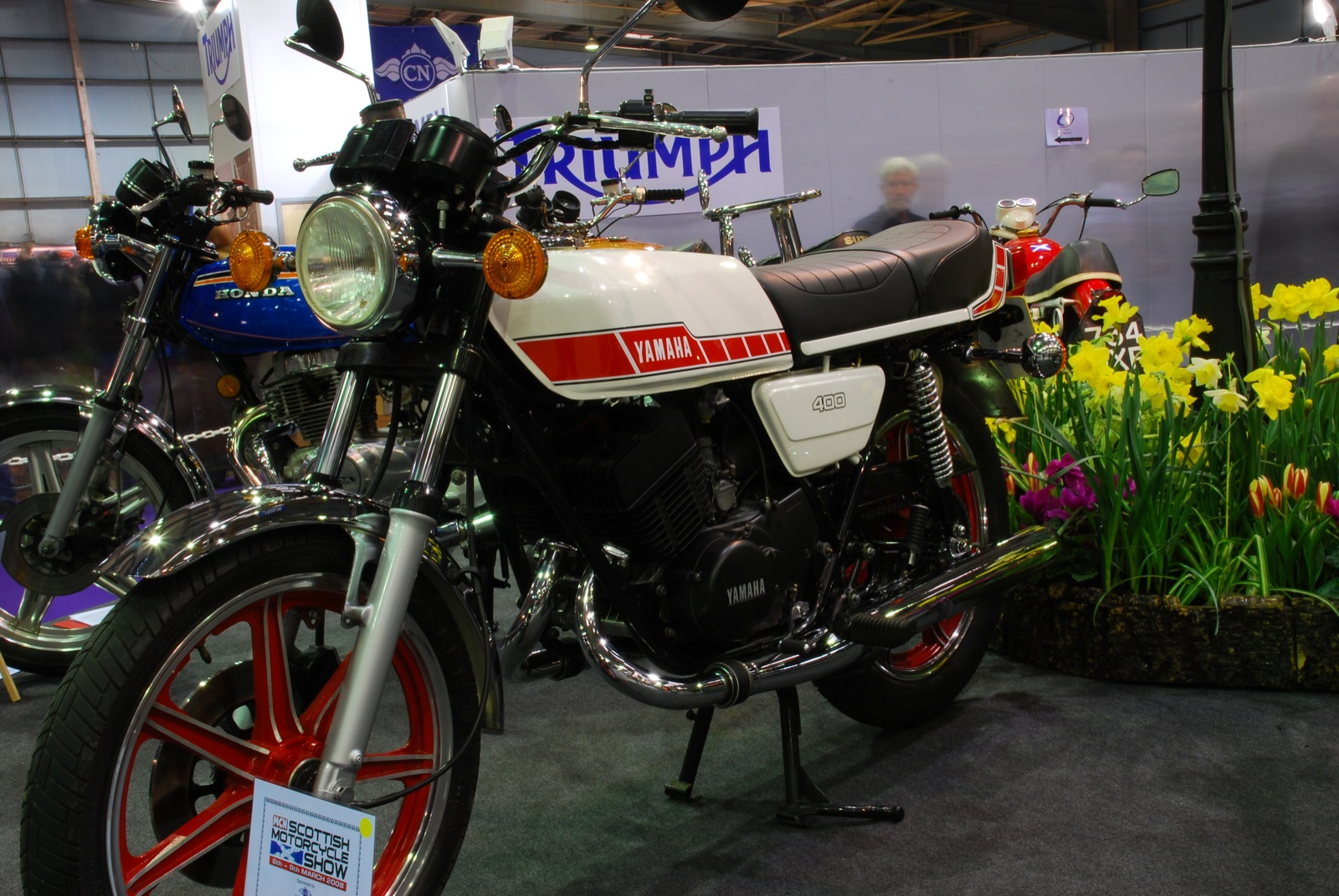 These older bikes were so environmentally friendly the only emissions were seasonal flowers...